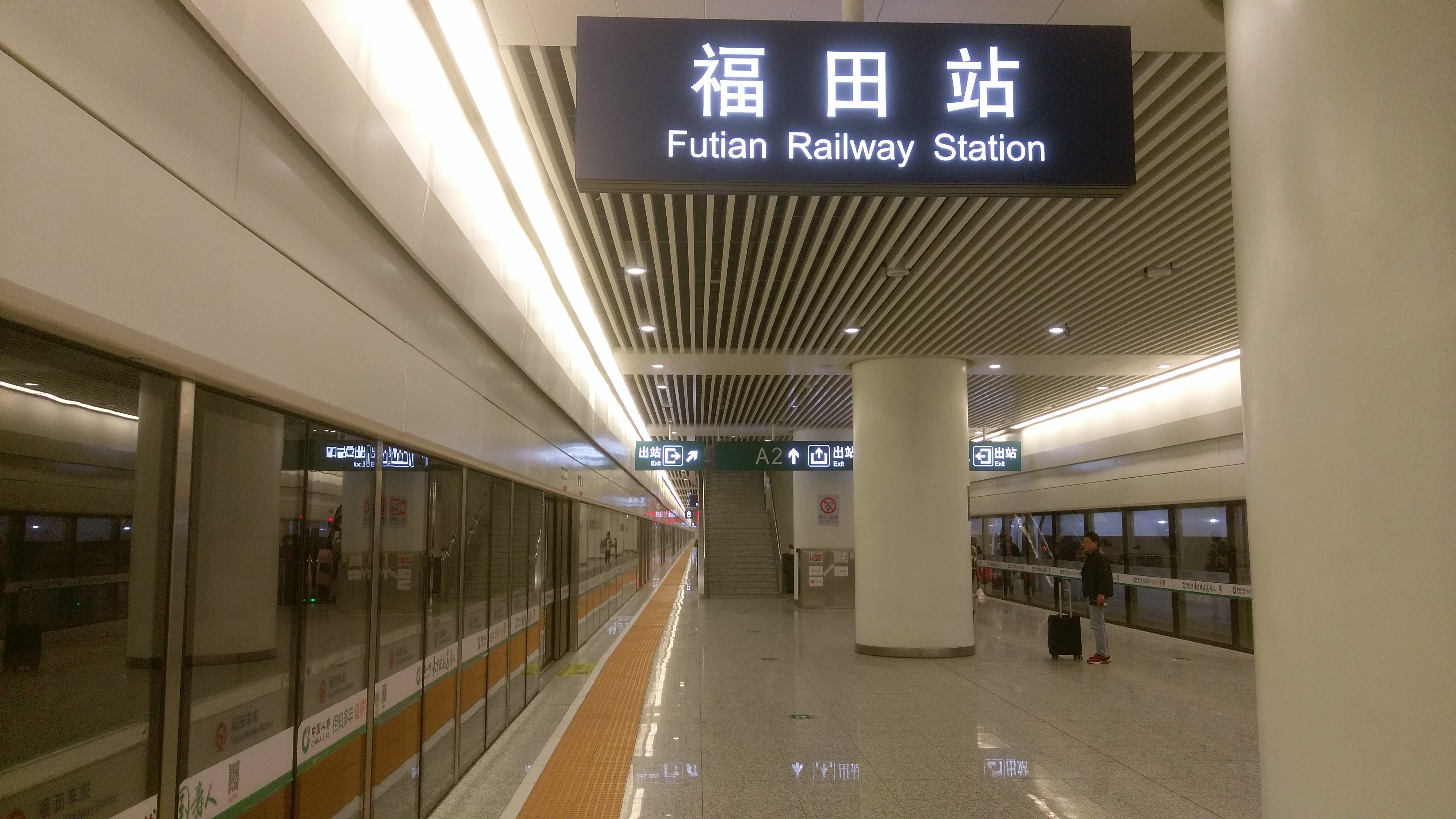 A platform of the underground Futian Railway Station in Shenzhen, China.